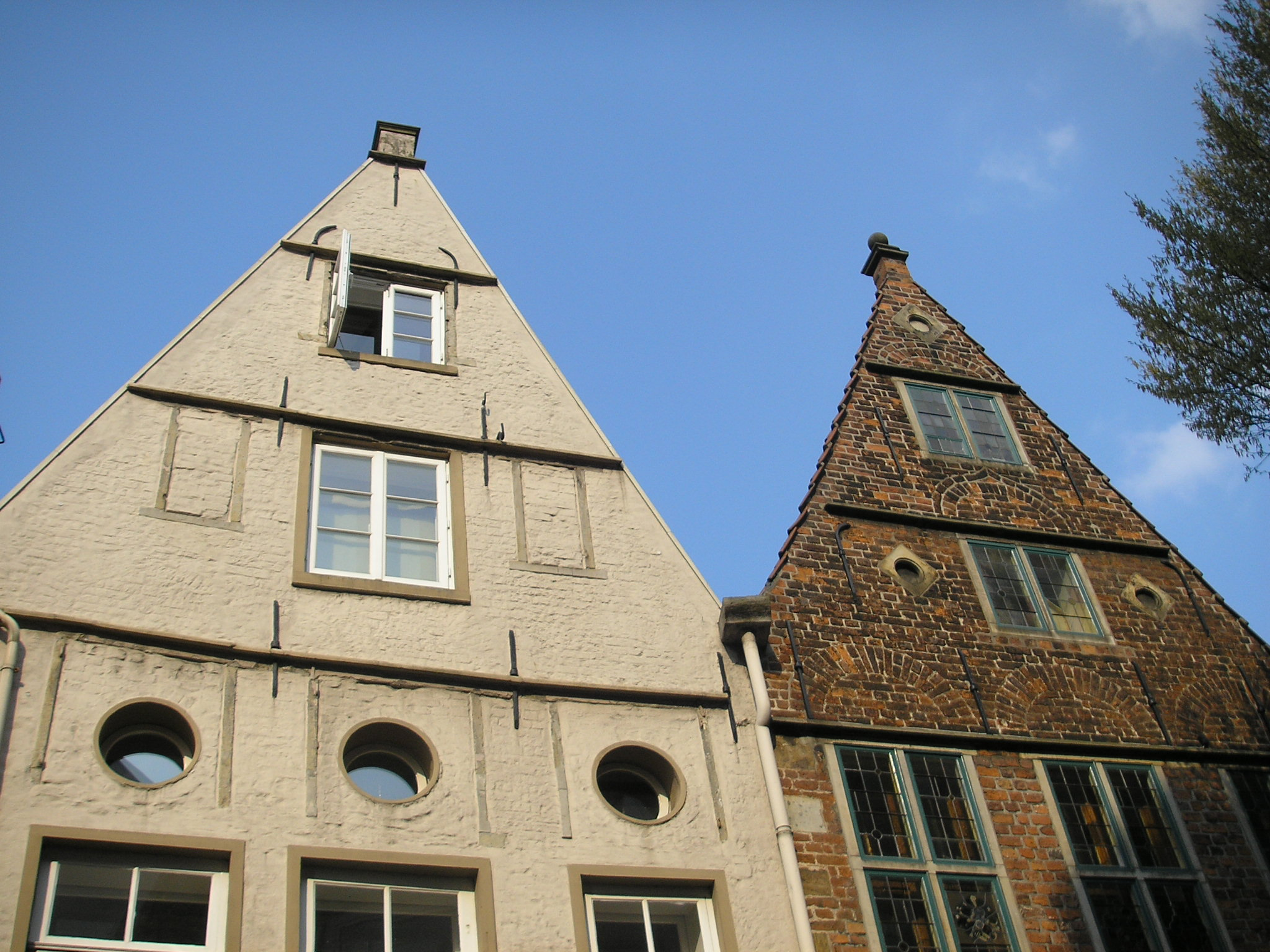 Image of the Schnoor in Bremen.